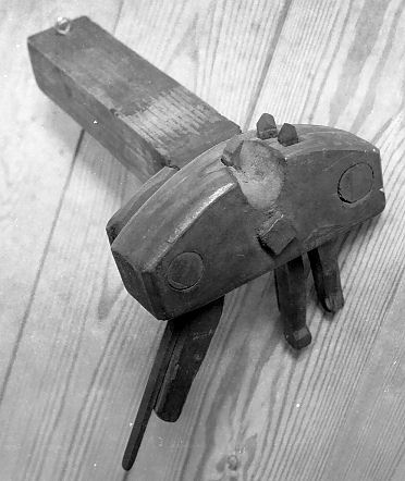 Tool used by a Cooper to make the groove in barrels.